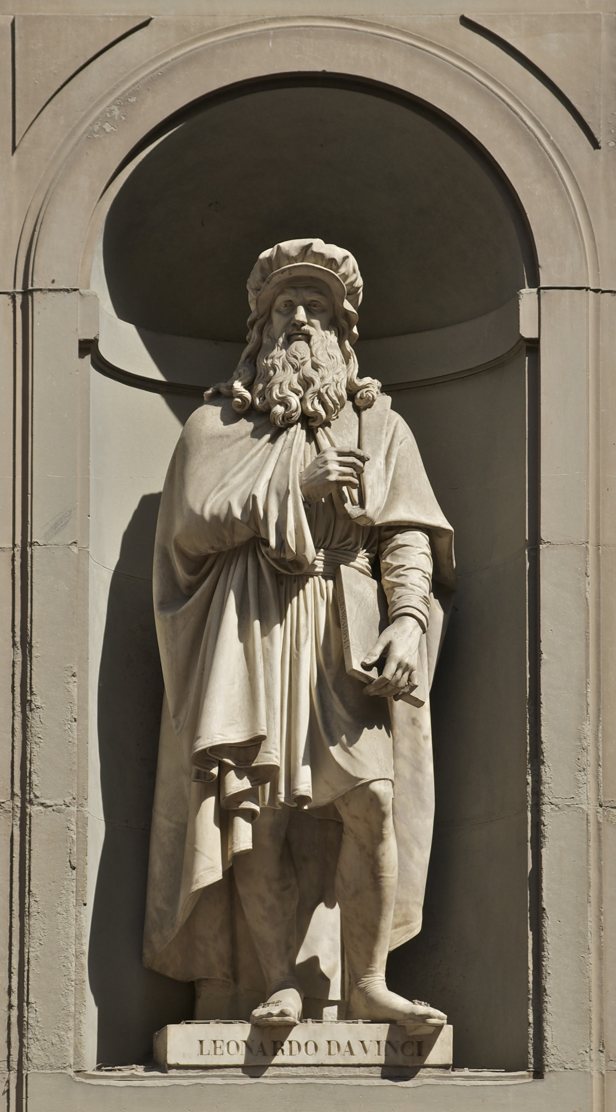 Statue of Leonardo da Vinci signed by Luigi Pampaloni, Serie of the "Great Florentines", Piazzale degli Uffizi, Florence, Italy.